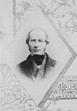 Joseph Ludwig Raabe (1801–1859), Swiss mathematician.